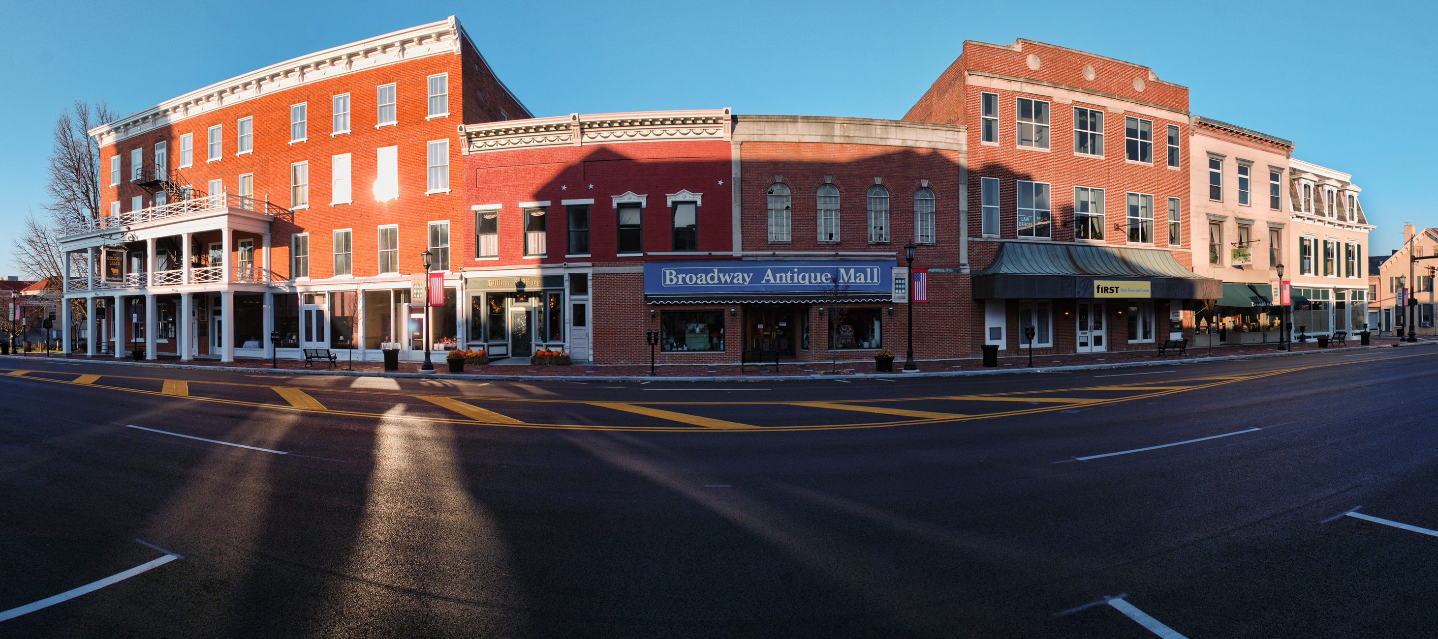 Broadway Street in Lebanon, Ohio, USA.